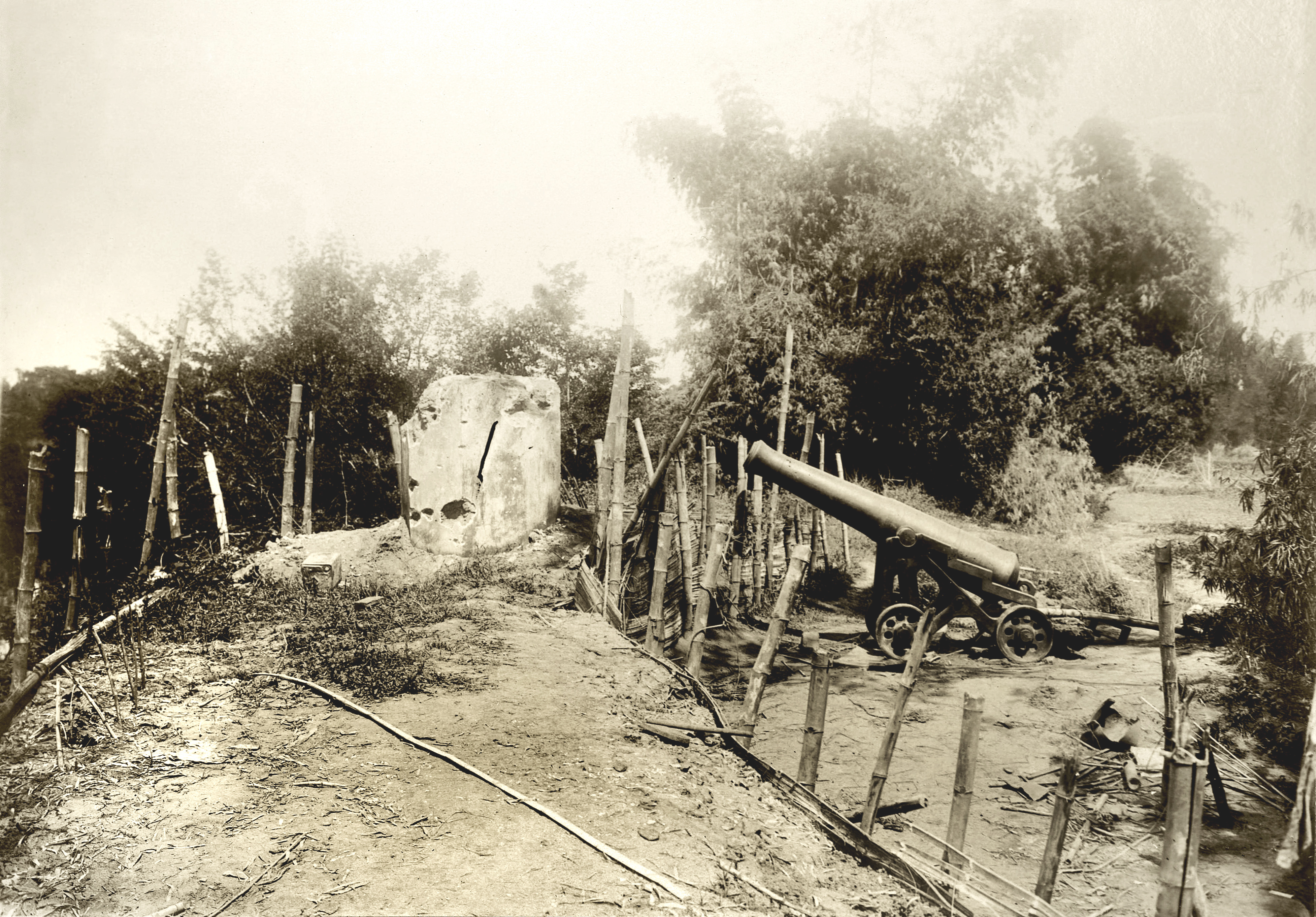 The smooth-bore cannon used by the Filipinos during the Battle of Zapote River in 1899.